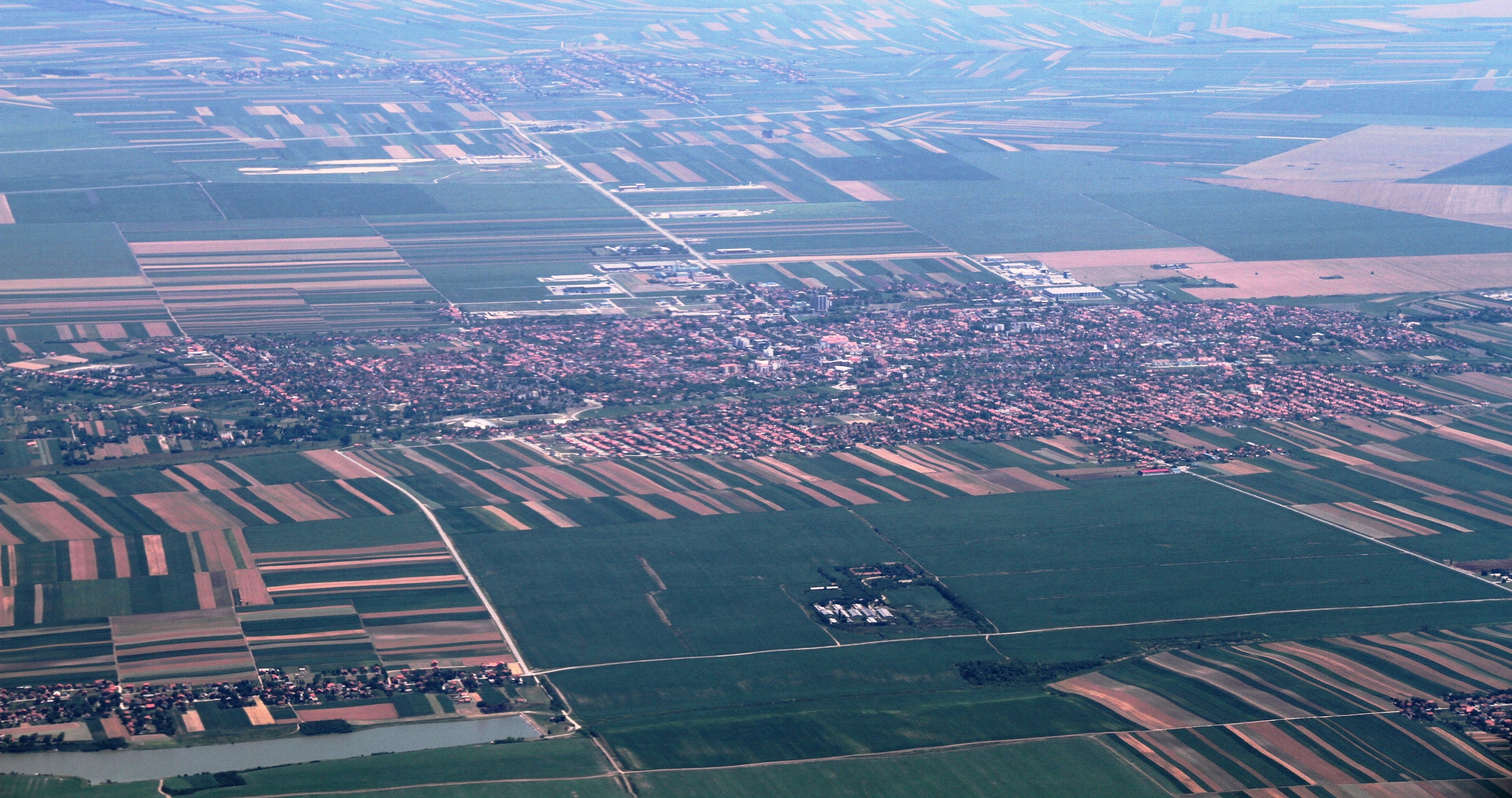 Aerial view from the west towards east, of v in northern Serbia